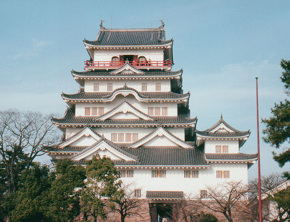 the keep of Fukuyama Castle